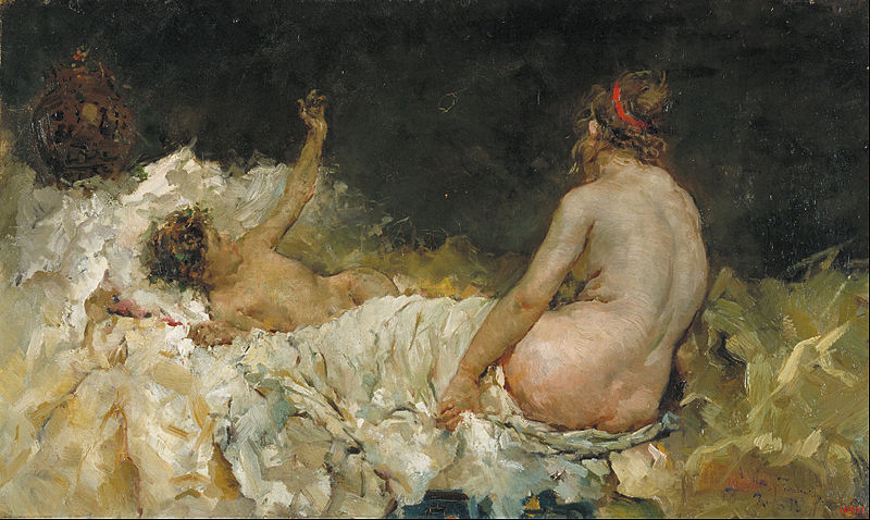 Study